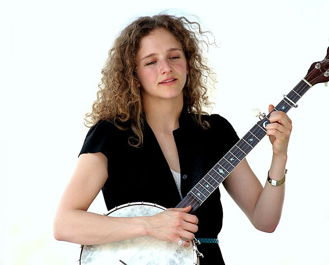 Abby Washburn at MerleFest 2007, Photo by Forrest L. Smith, III